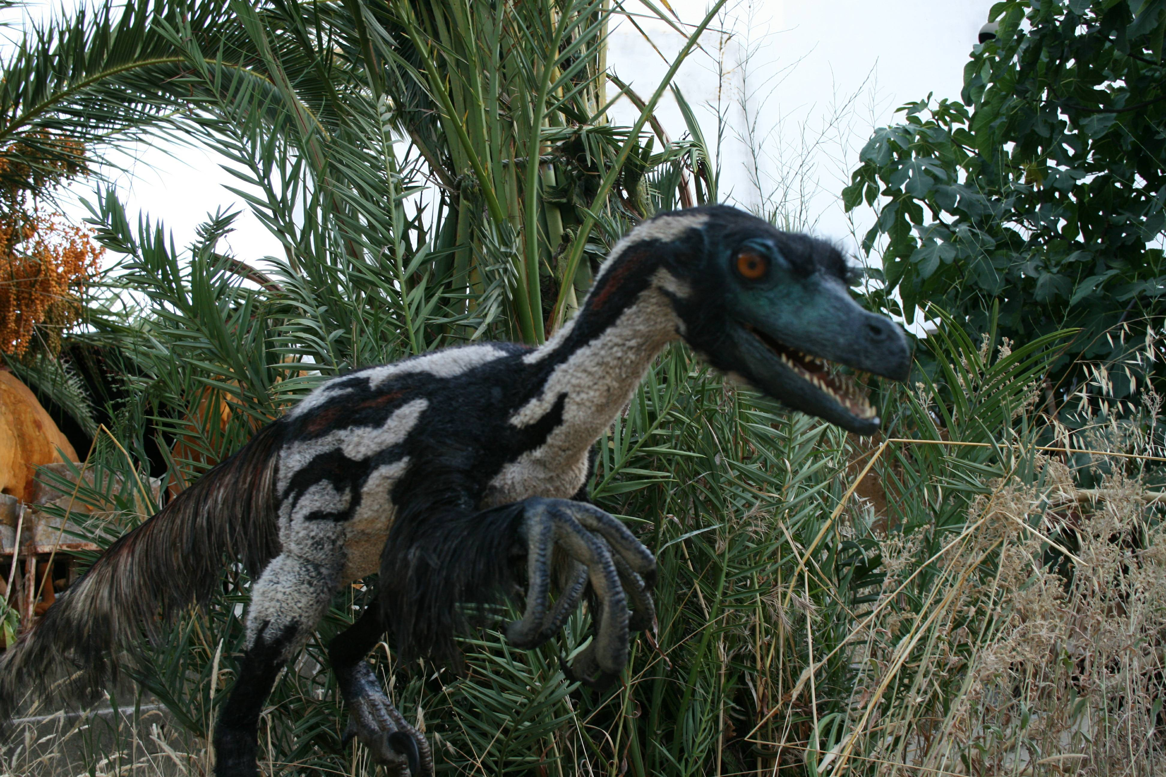 Velociraptor recreated by Salvatore Rabito Alcón